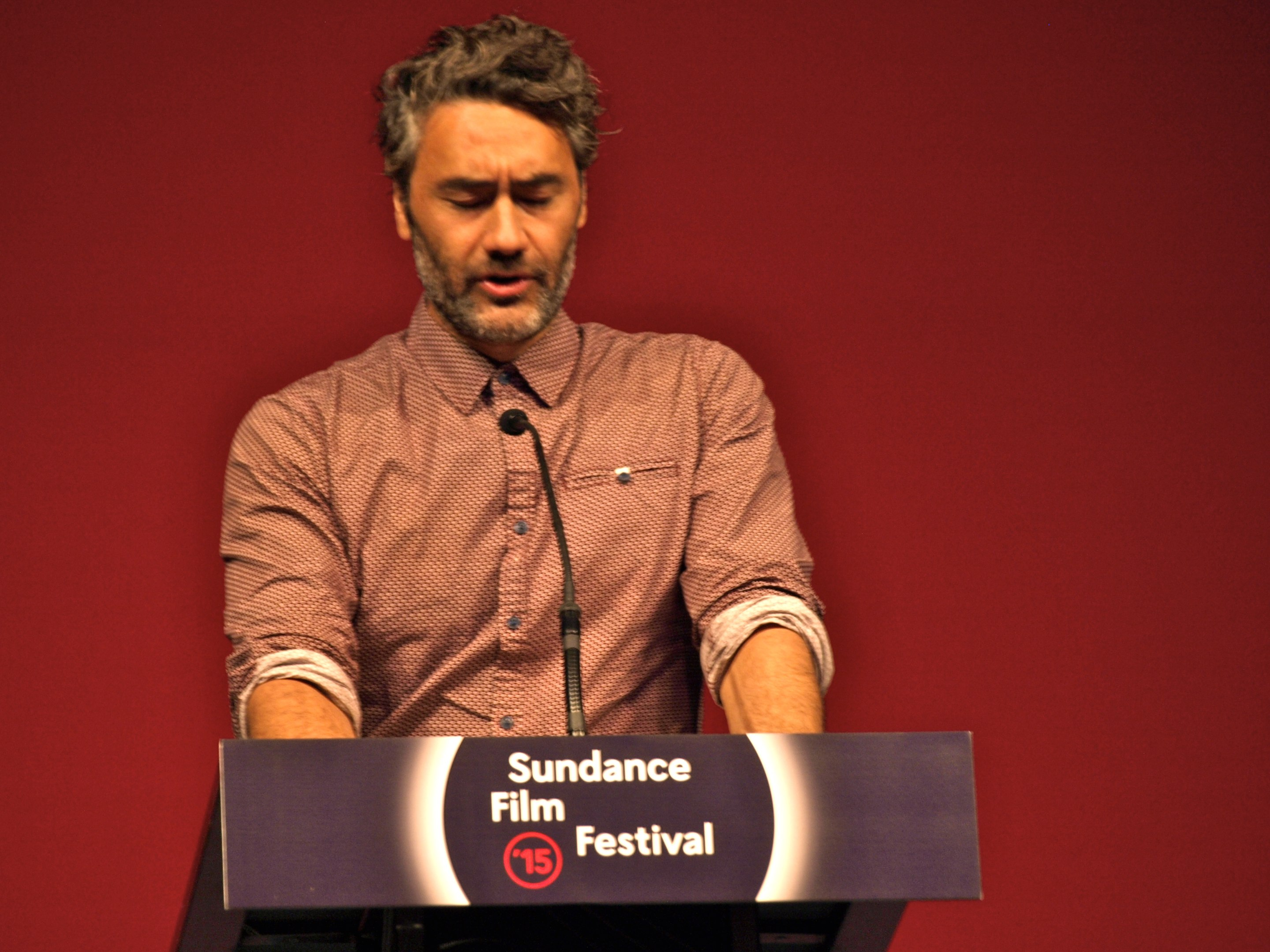 Taika Waititi at Sundance 2015